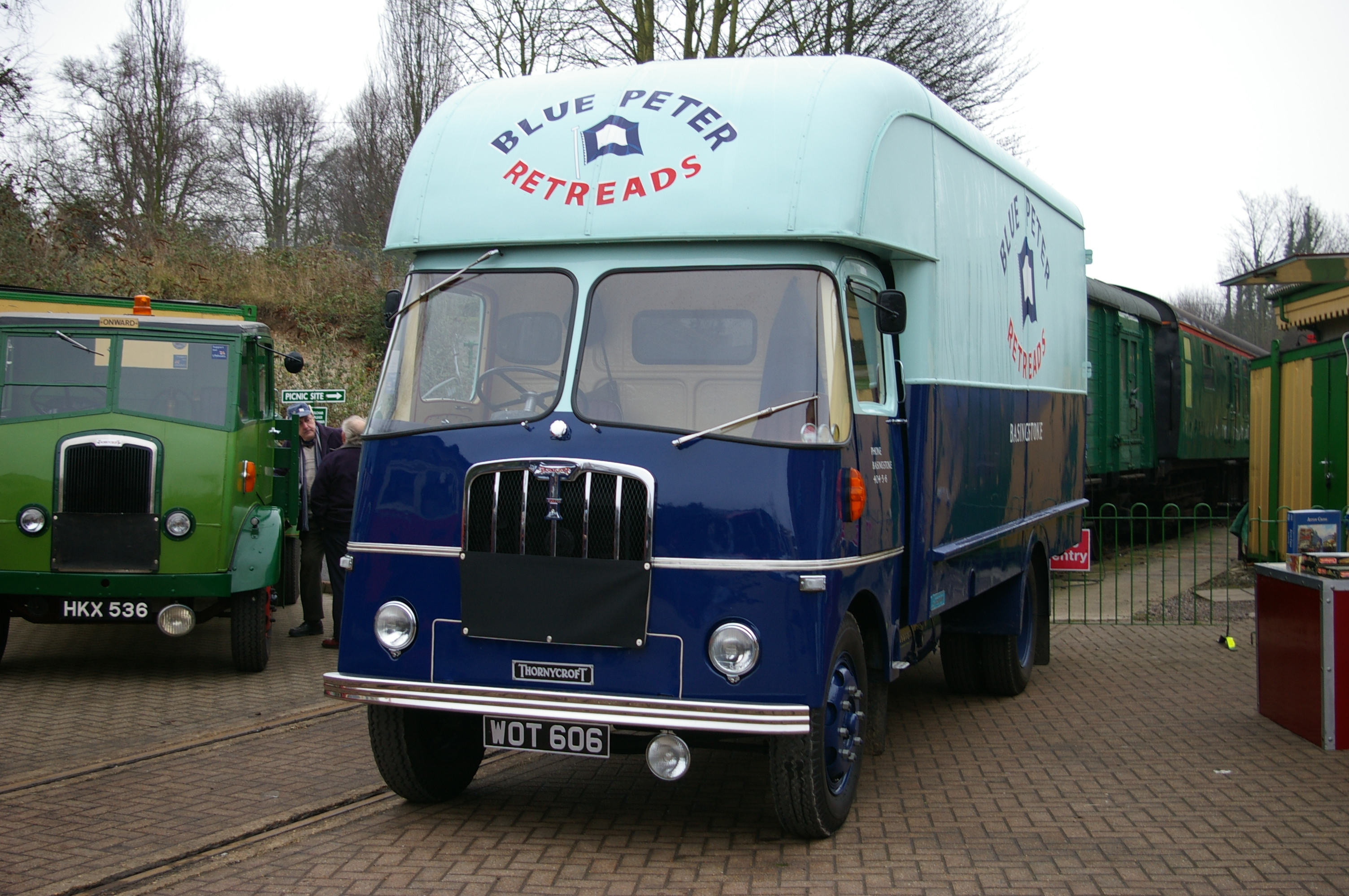 1959 Thornycroft Swift GL JR6 on display in Alresford Station forecourt M-HR's 2010 Freight Weekend.